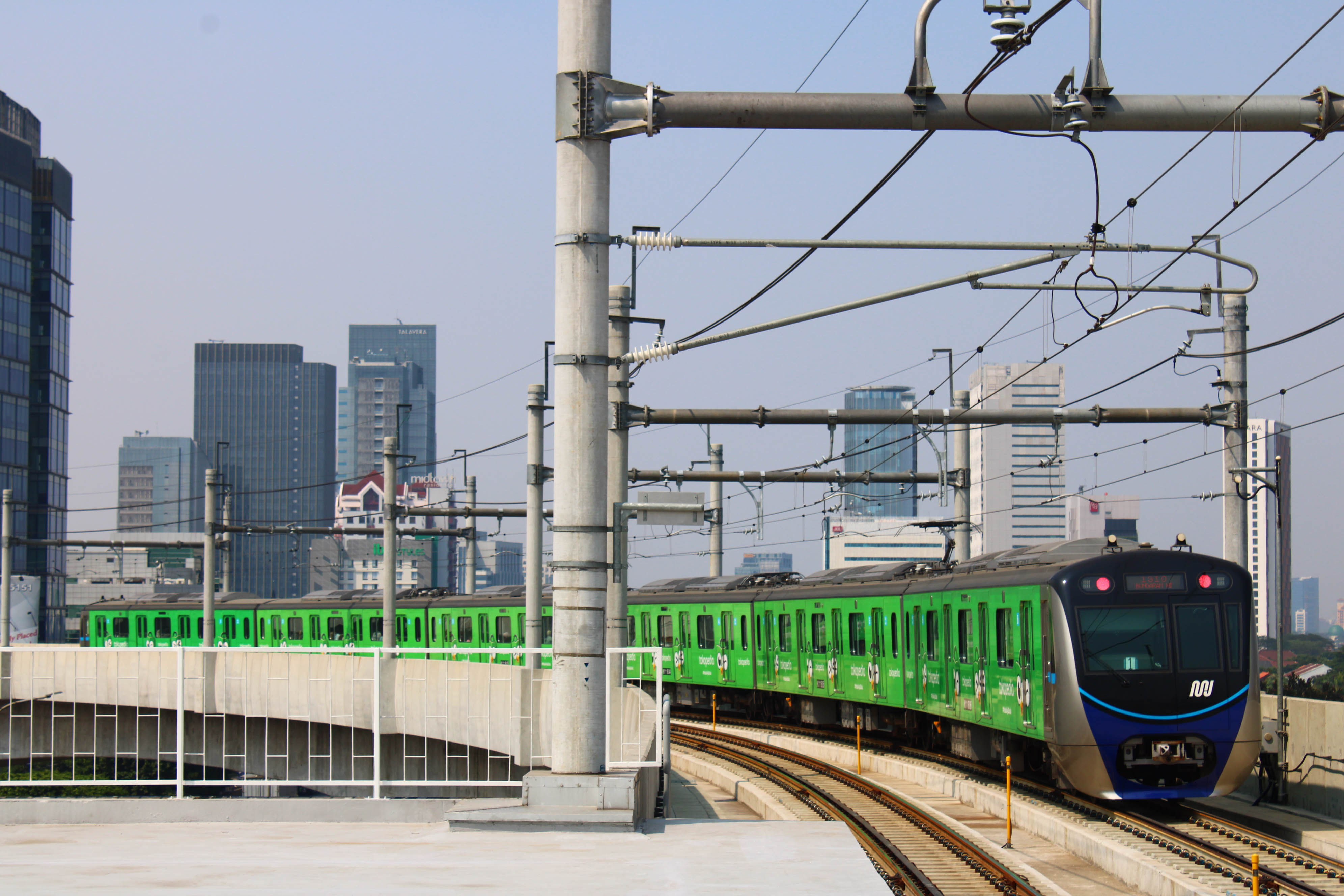 Jakarta MRT TS1 departs from Fatmawati Station.